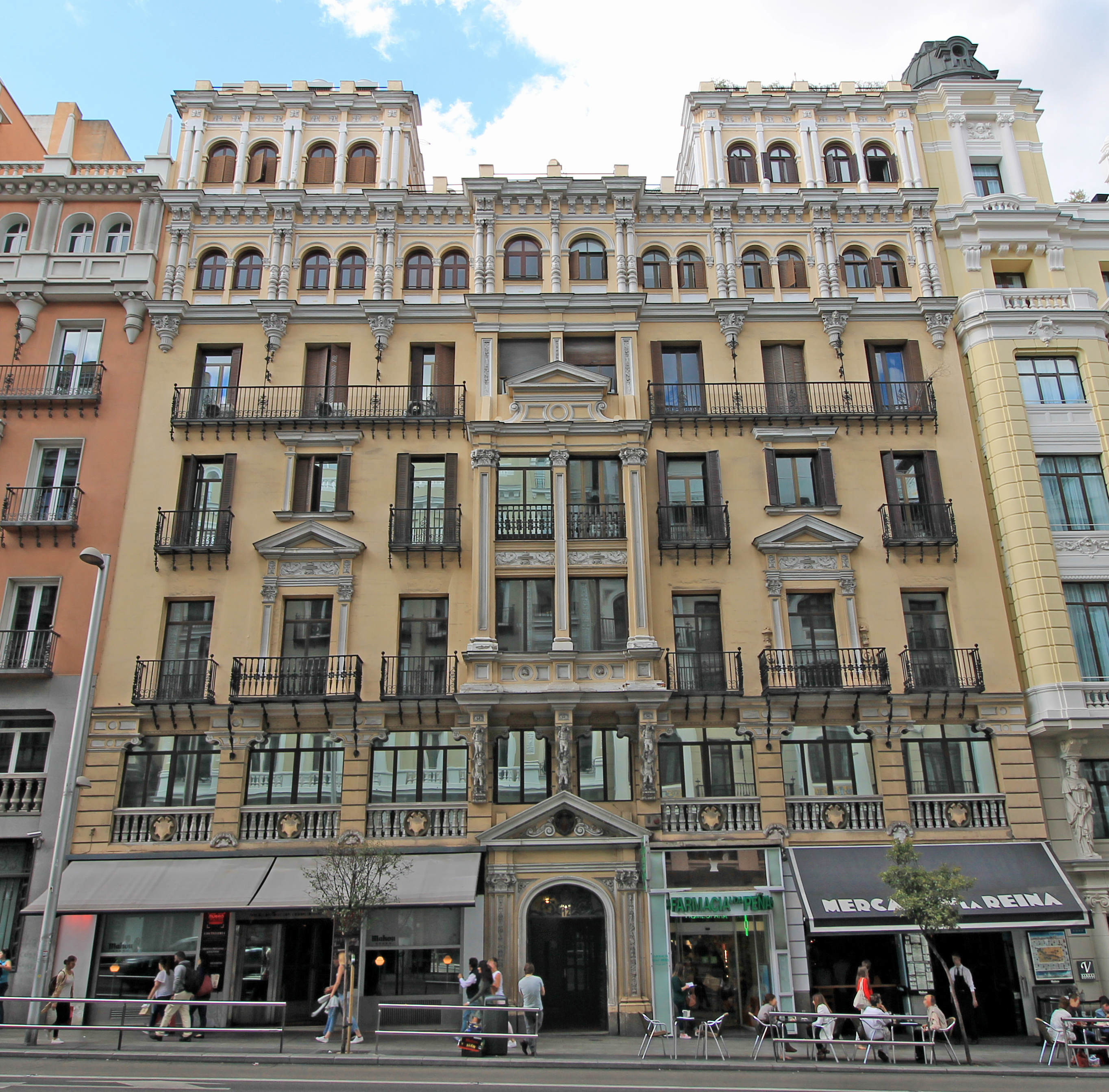 Building at 12 Gran Vía (avenue) in Madrid (Spain).